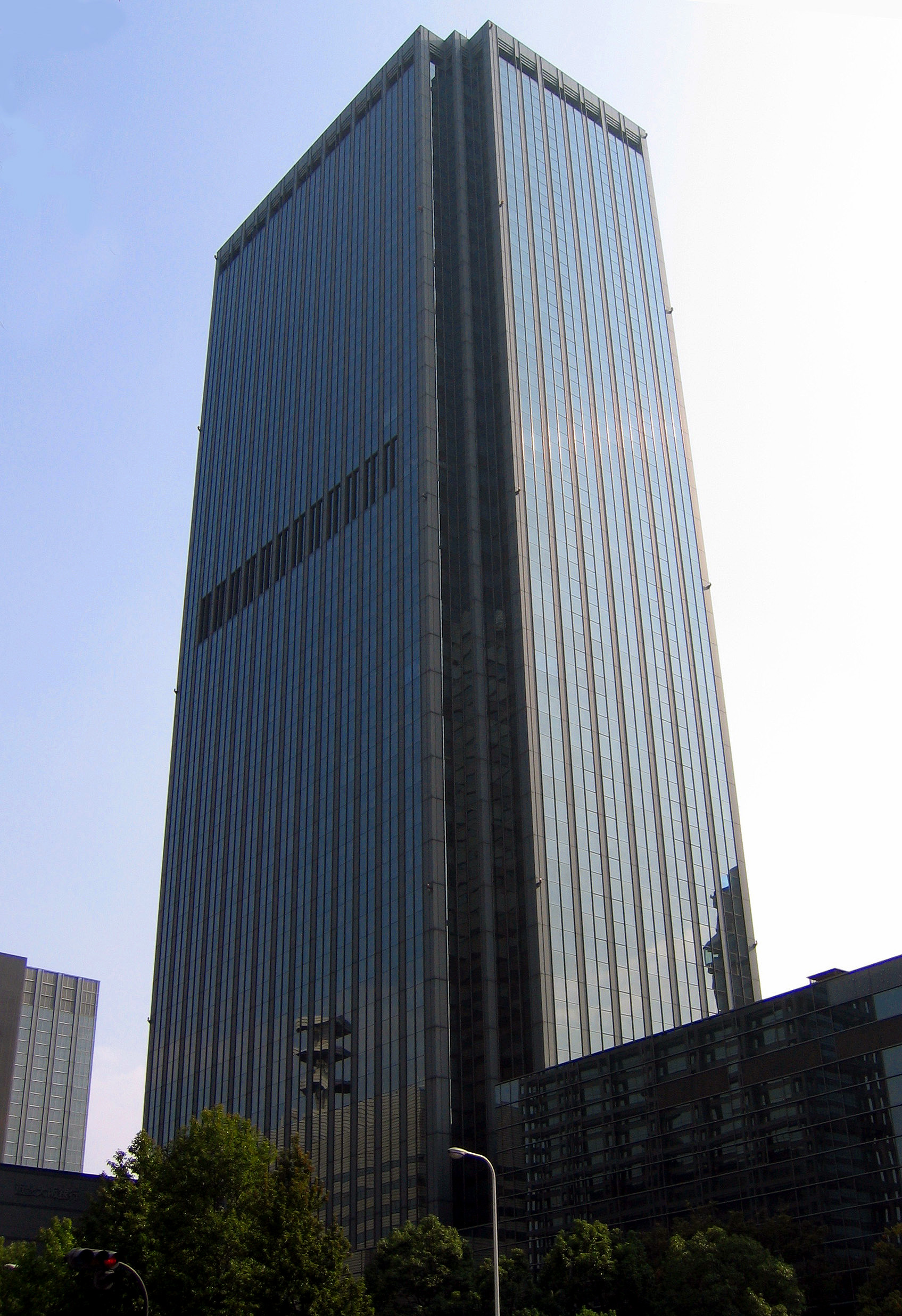 It is the photograph of Osaka Business Park (common name : OBP) of Osaka-shi.